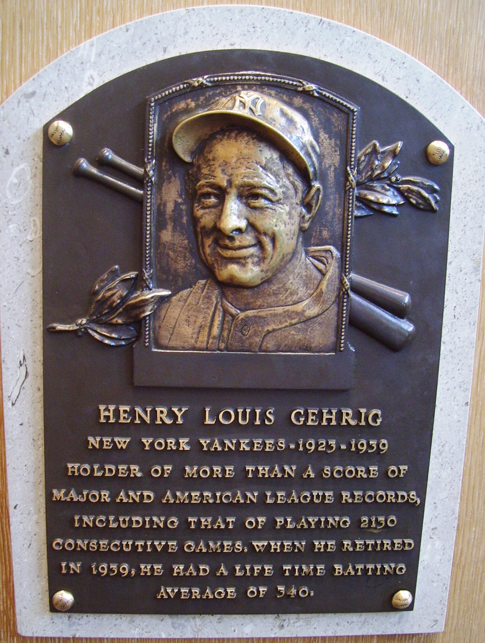 Lou Gehrig's Baseball Hall of Fame Plaque. Taken by me. --(Review Me) R ParlateContribs@ (Let's Go Yankees!) 19:07, 22 July 2007 (UTC) 19:07, 22 July 2007 . . R . . 1,779×2,395 (1.26 MB)